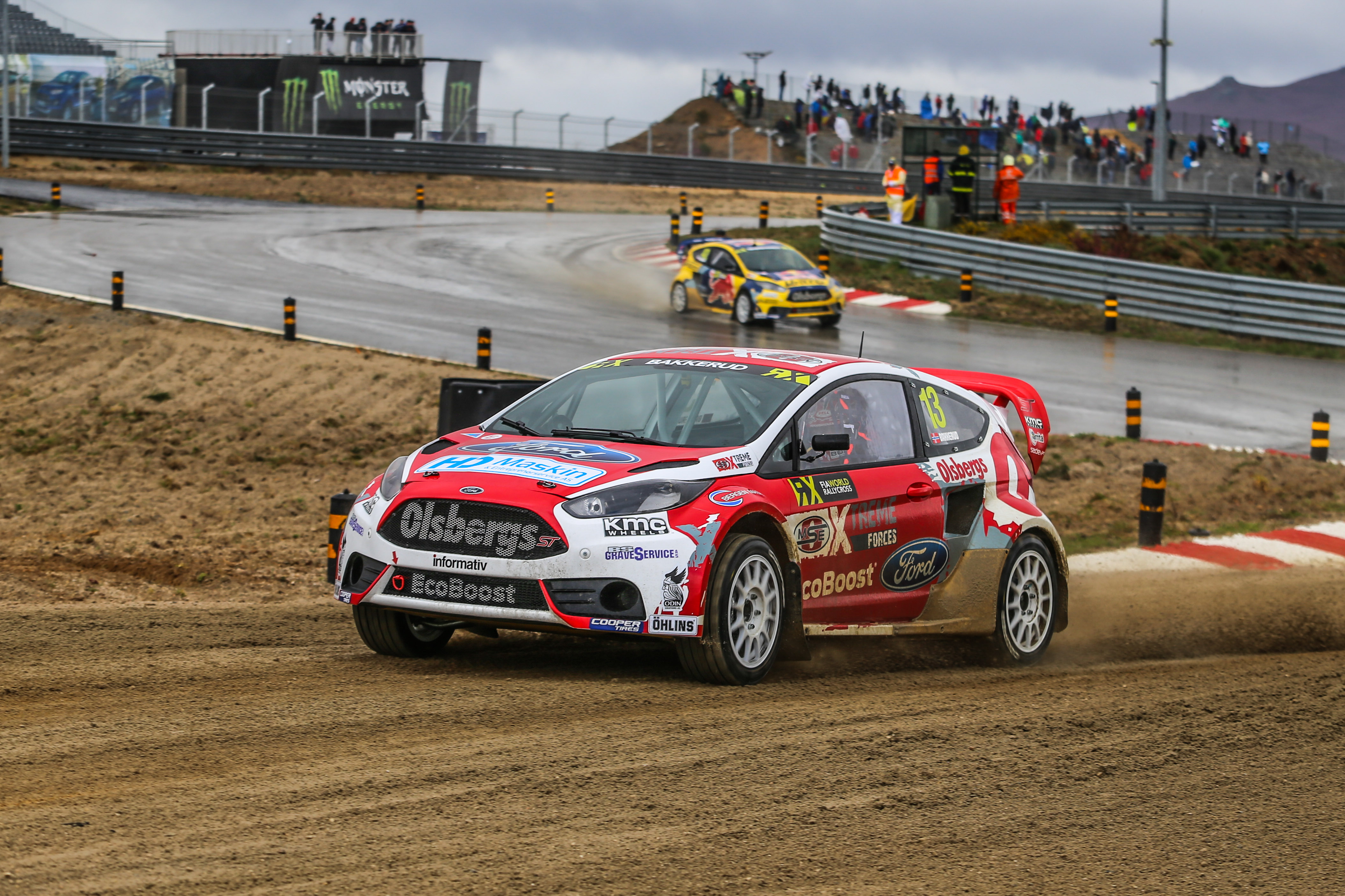 Norwegian rallycross driver Andreas Bakkerud in his Ford Fiesta Supercar, followed by Timur Timerzyanov. Round 1 of the 2015 FIA World Rallycross Championship at Pista Automóvel de Montalegre, Portugal.